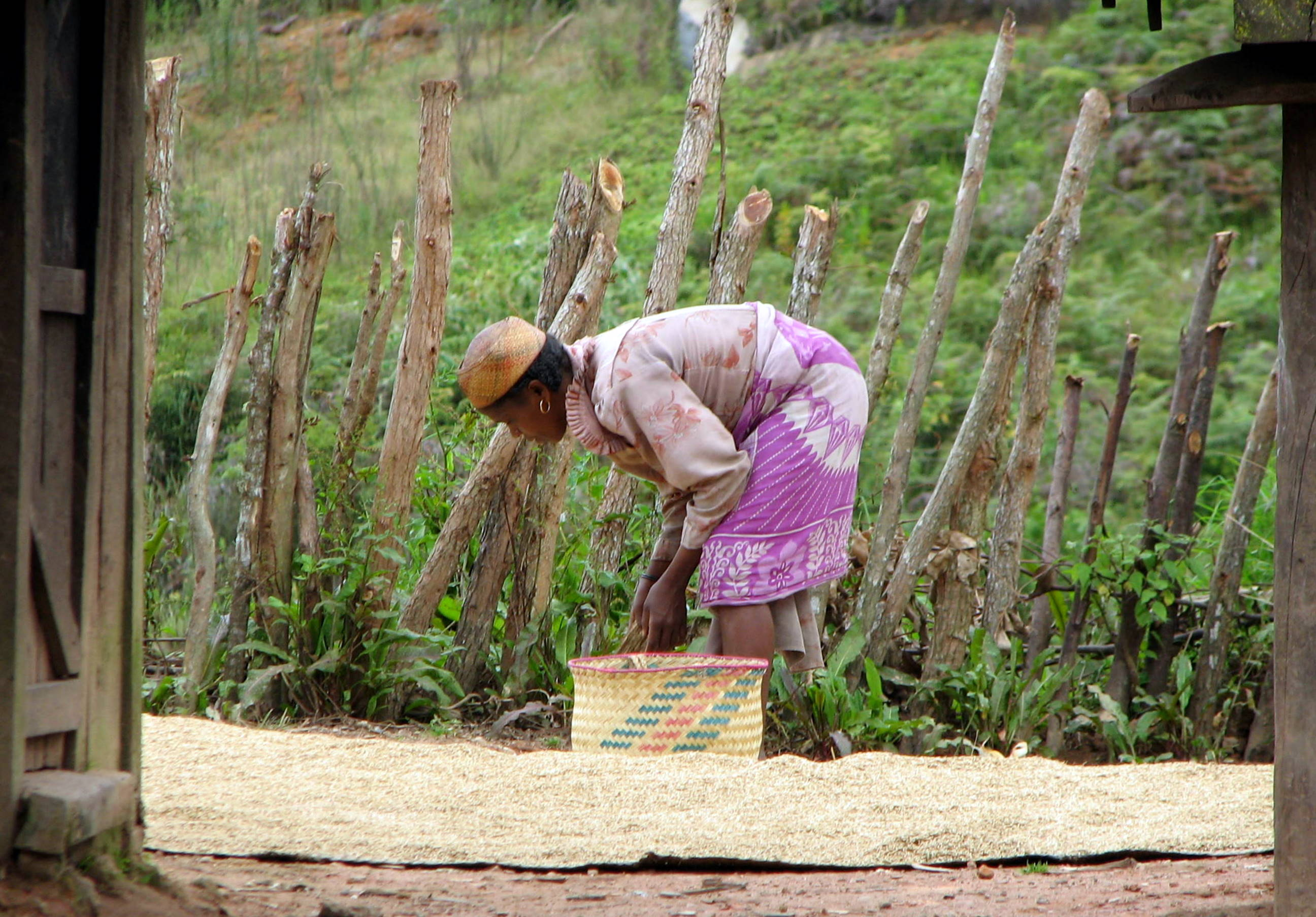 Zafimaniry woman, village of Ifasina, Madagascar